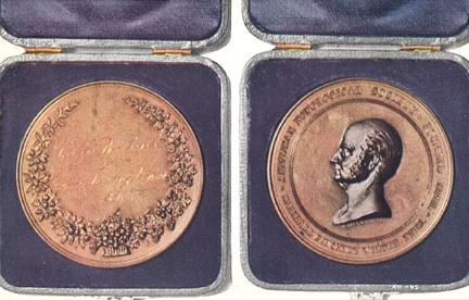 Burbank's medal. This is one of several hundred medals received by Mr.Burbank in the course of the last thirty years for his almost numberless plant developments.